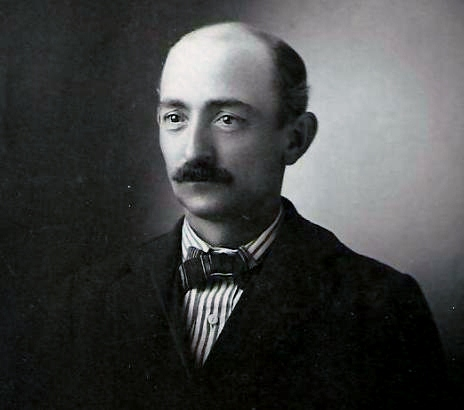 Personal Portrait of Frederick Hinde Zimmerman 1900.